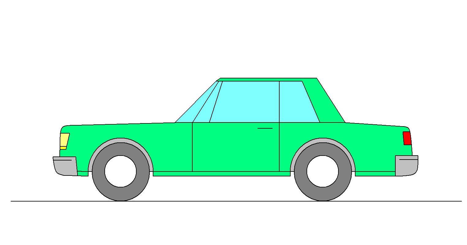 Cartype Coupe